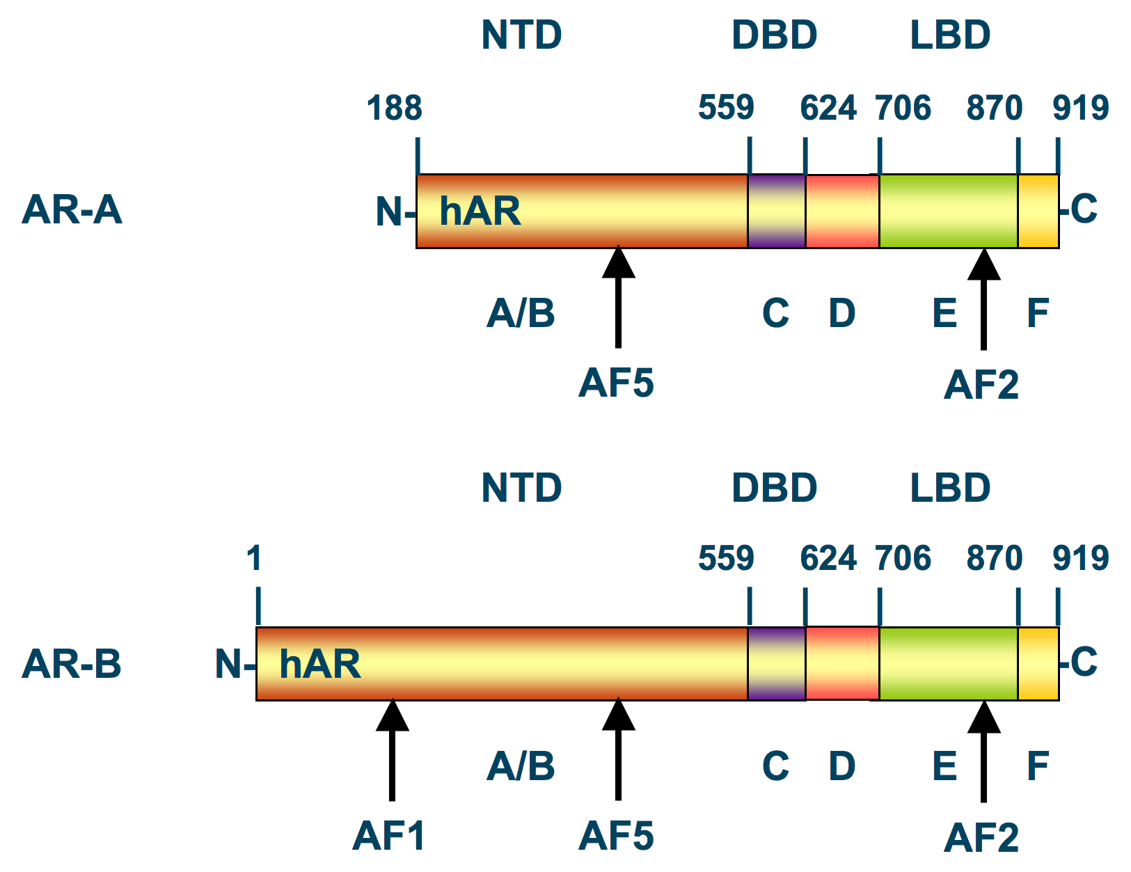 Created myself using PowerPoint